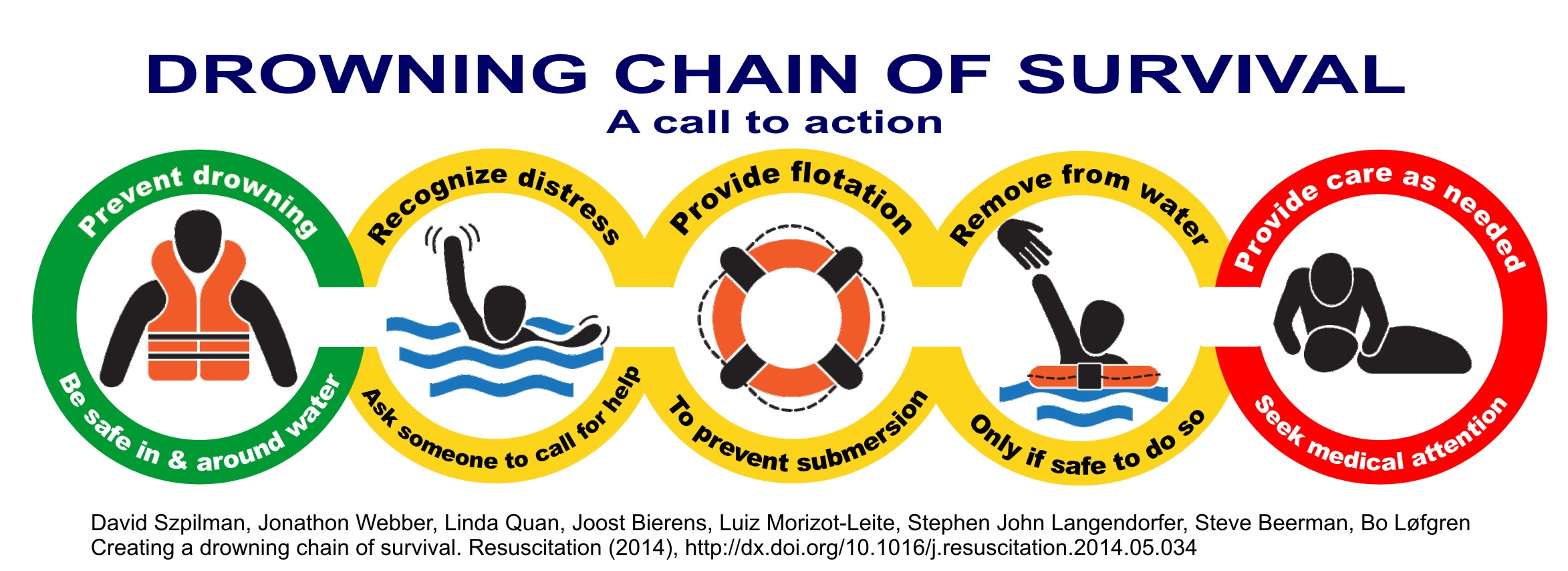 Drowning Chain of Survival